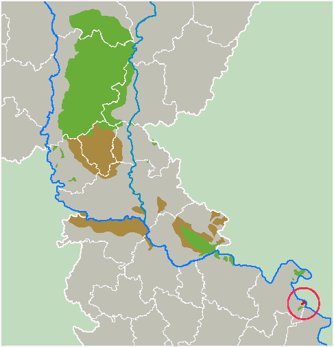 LEGEND: Green - Sands, Red - Selected Sand, Brown - Loess. Српски (ћирилица): Мапа је због потребе приказивања садржаја мала и није у потпуности прецизна. Употребљени извори су педолошке карте и мапе заштићених подручја Завода за заштиту природе, као и рад др Млађена Јовановића Пешчаре у Србији 2014, Природно-математички факултет Универзитета у Новом Саду.